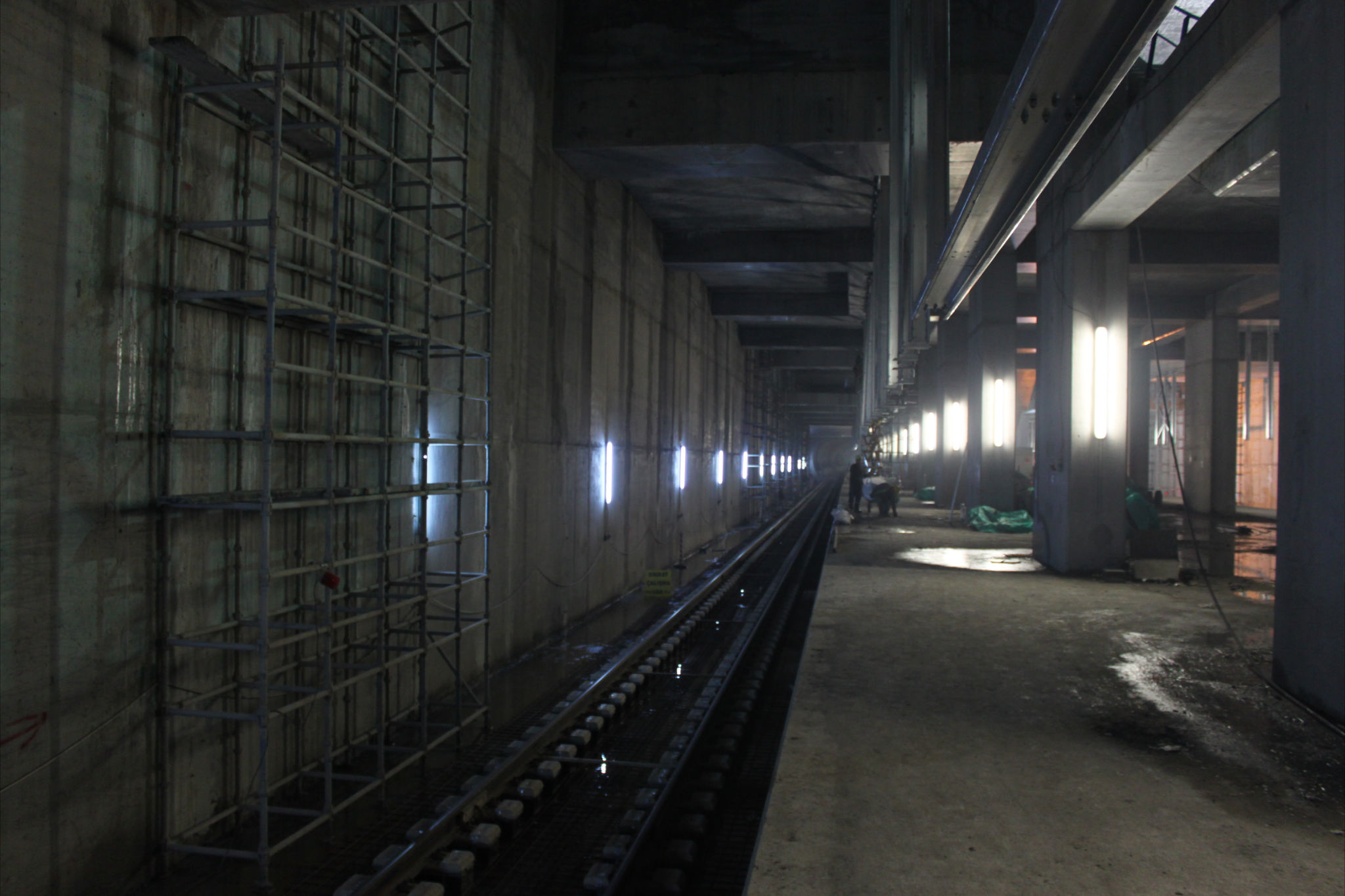 Marmaray Project